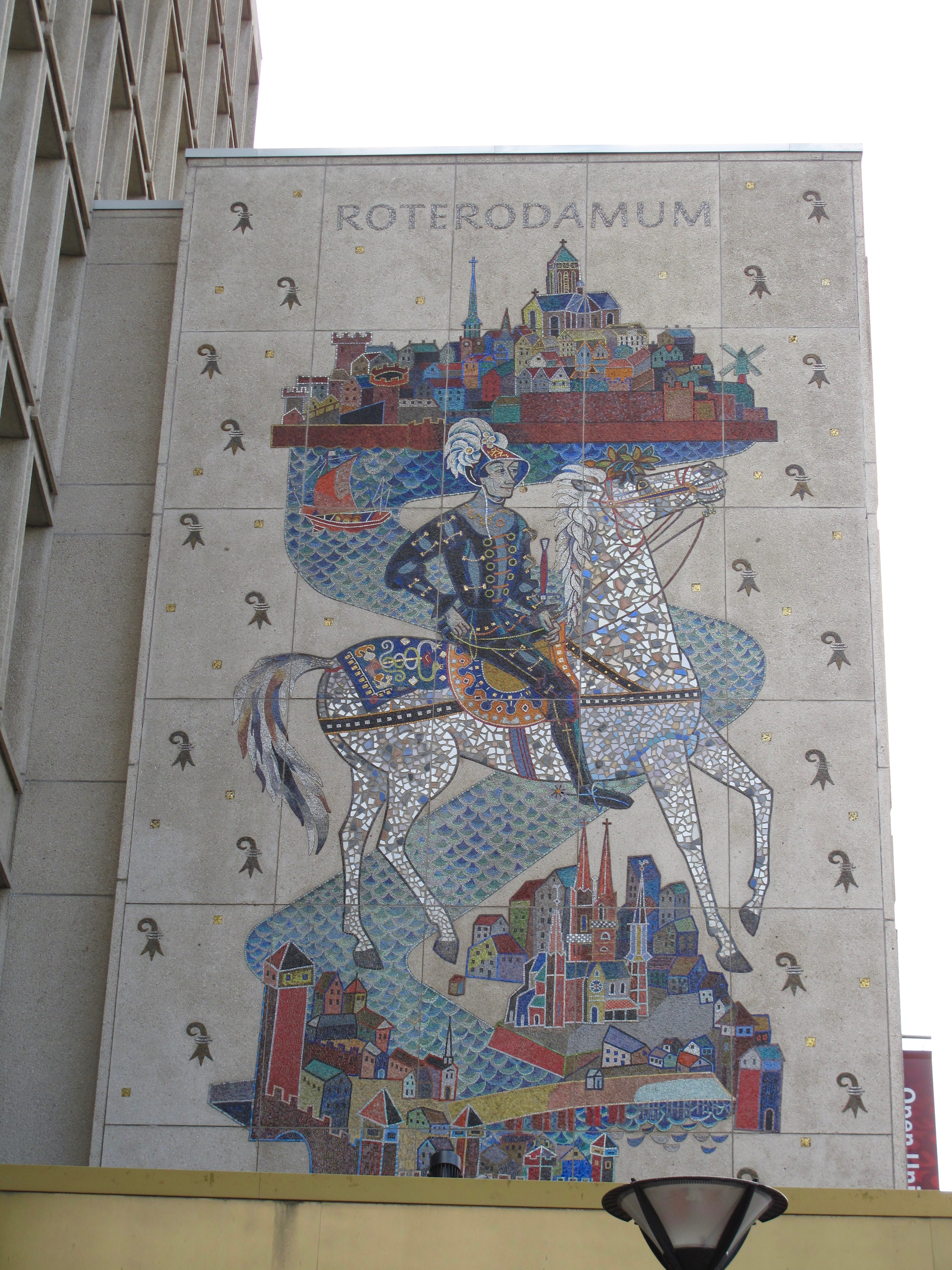 Holbeinhuis, office building at Coolsingel in Rotterdam. Mosaic by Louis van Roode.